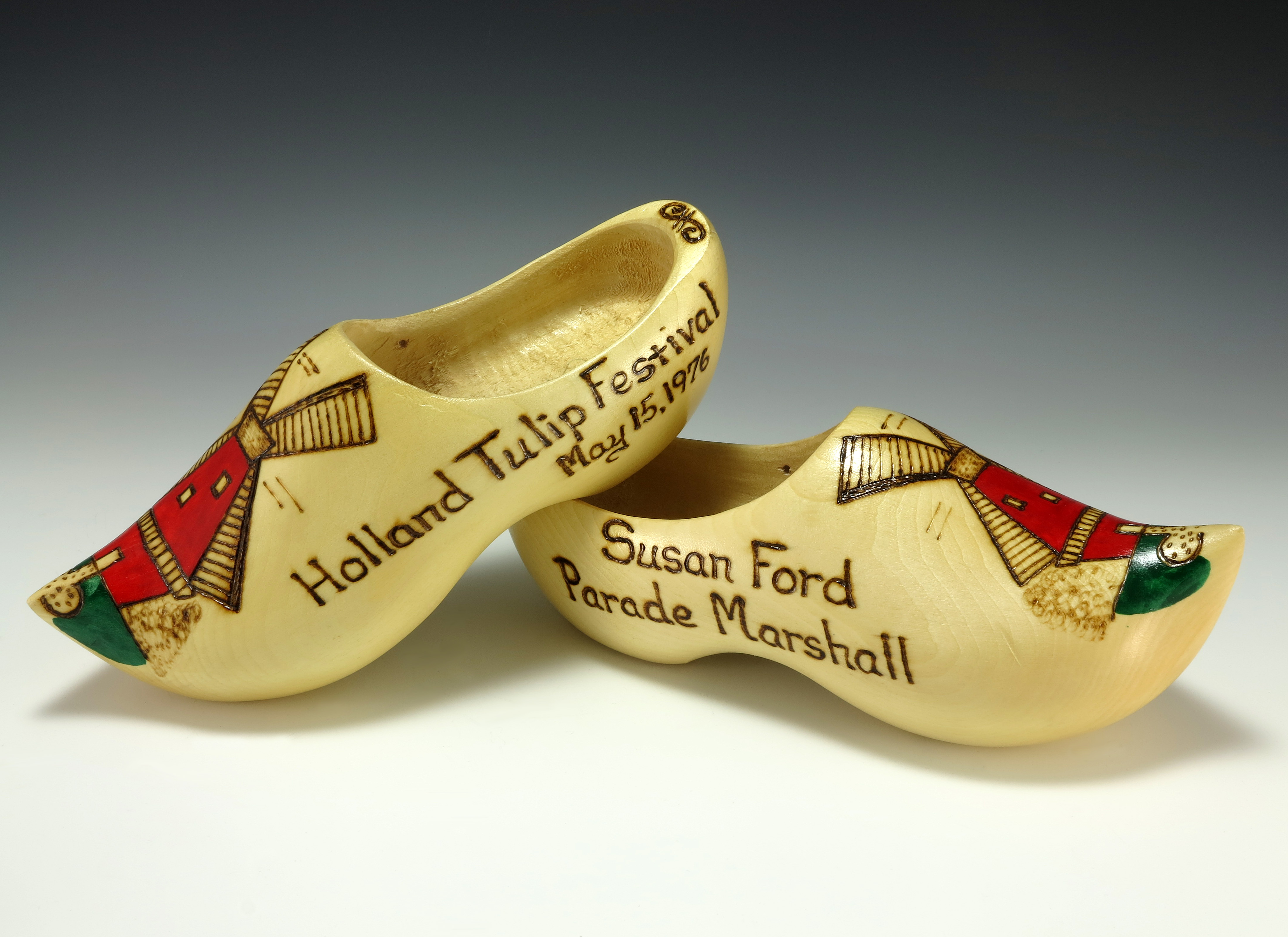 Wooden clogs given to Susan Ford. One of a set of three pair given to President Gerald R. Ford, First Lady Betty Ford, and Susan. They are carved from wood and each feature a colorfully painted windmill. Wood burned text on the sides read, “Holland Tulip Festival, May 15, 1976” and “Susan Ford, Parade Marshall.”